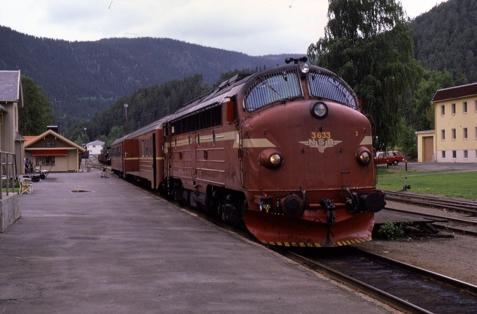 The branch to Fågernes closed a few years after this visit and was one of a few operated by the popular Nohab-built Di3 class. Taken on 9 June 1986, 3.633 is seen on the 15:35 Fågernes to Oslo Sentral which it worked as far as Eina where electric traction took over. Whilst the line and most of the class have gone, the loco seen here survives as was bought by the United Nations for use in Kosovo.